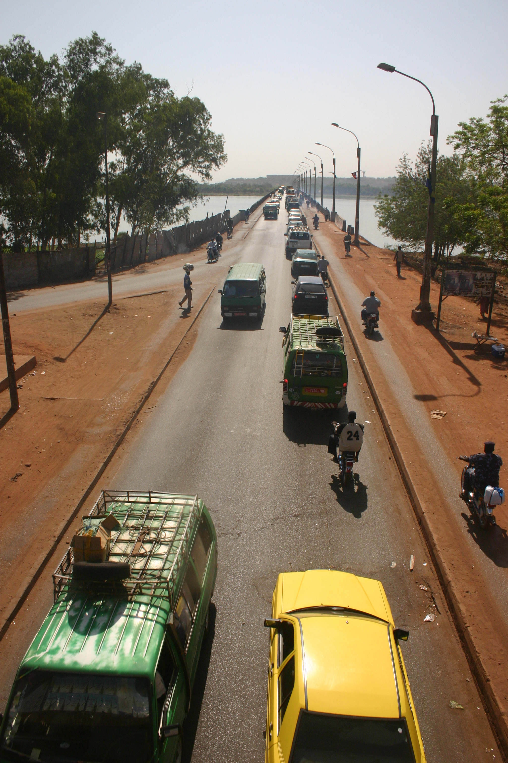 I used to drive this way every other day to work at the Commissary.